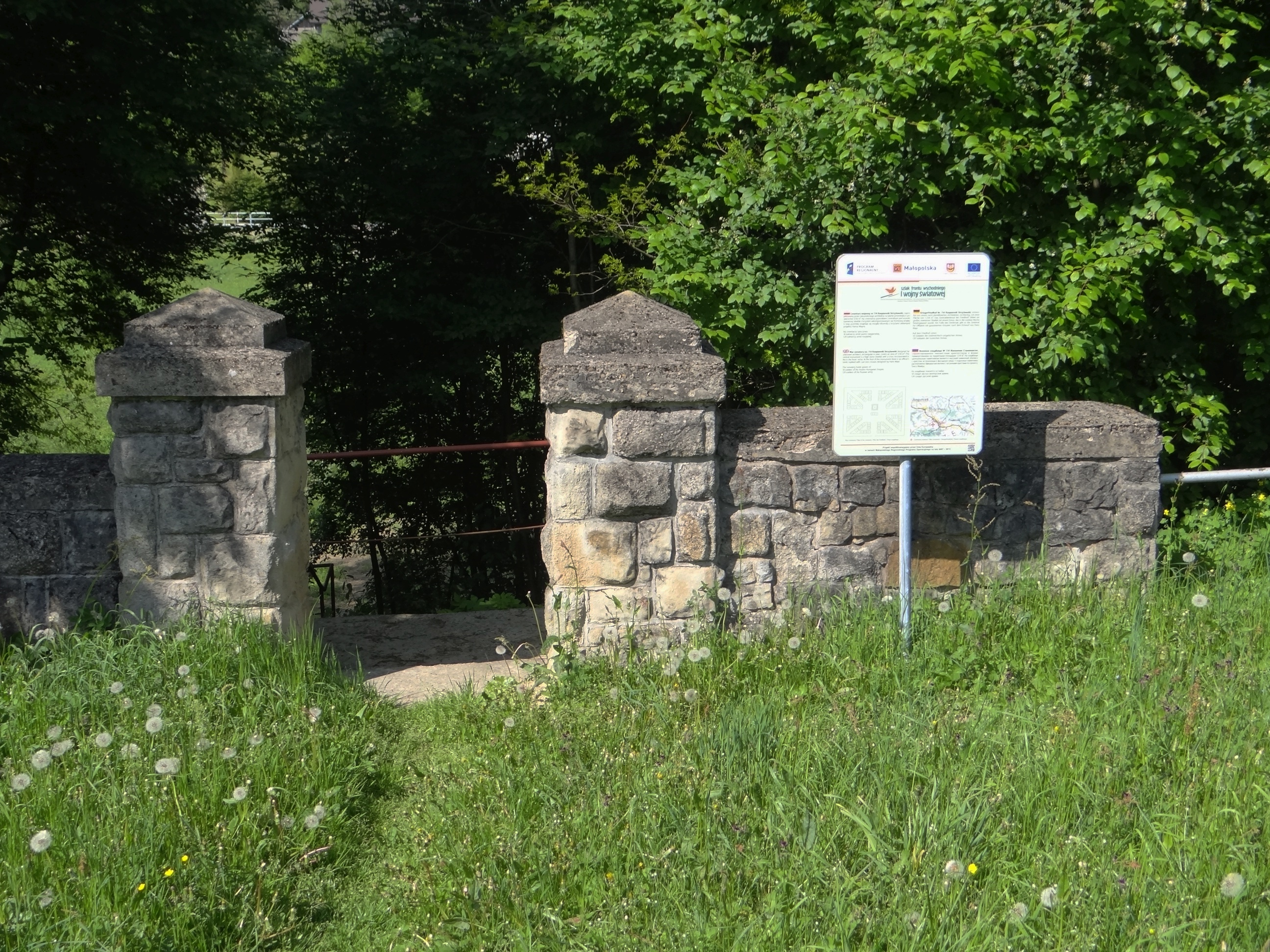 World War I Cemetery nr 114 in Rzepiennik Strzyżewski